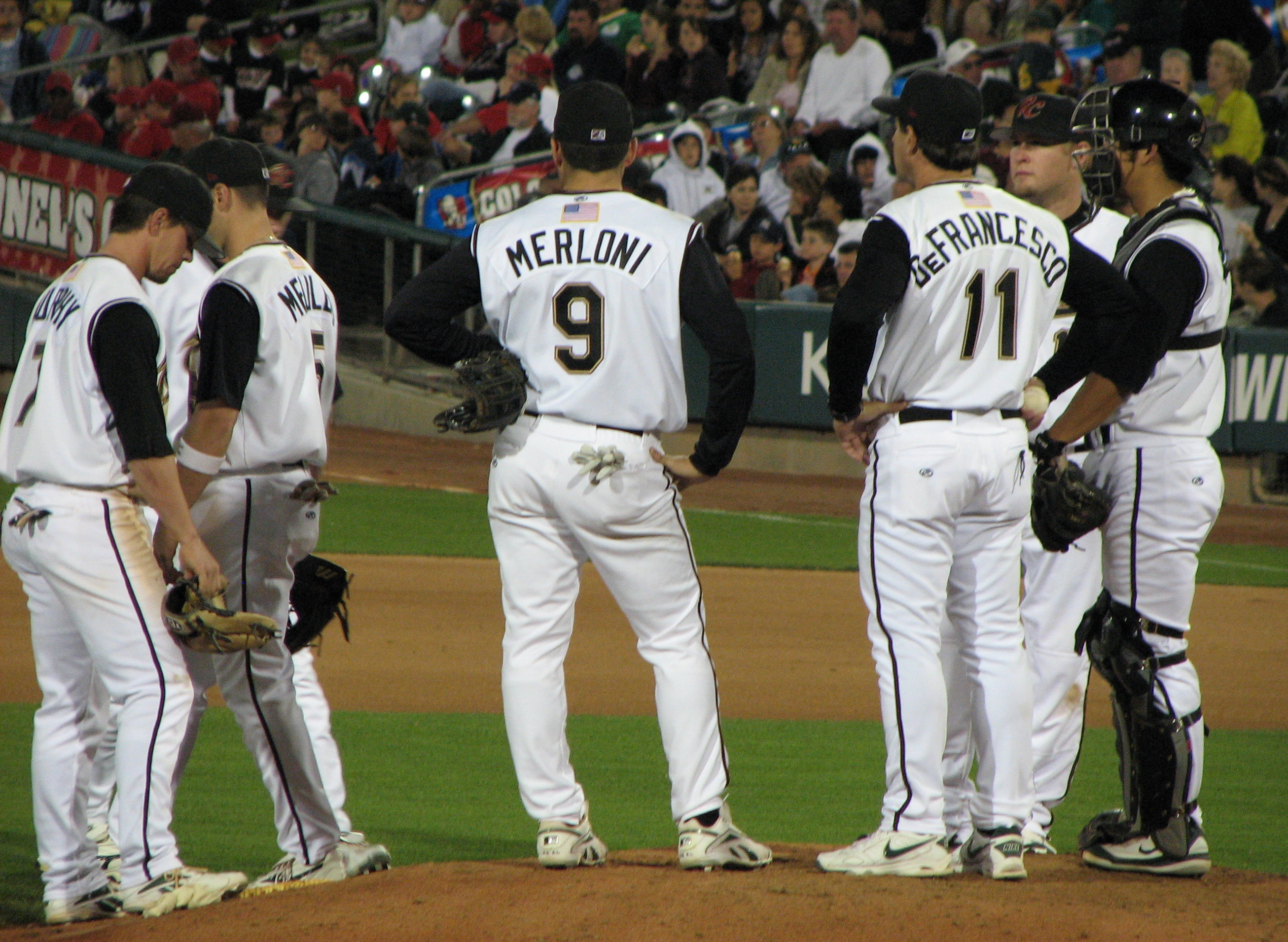 Sacramento River Cats players